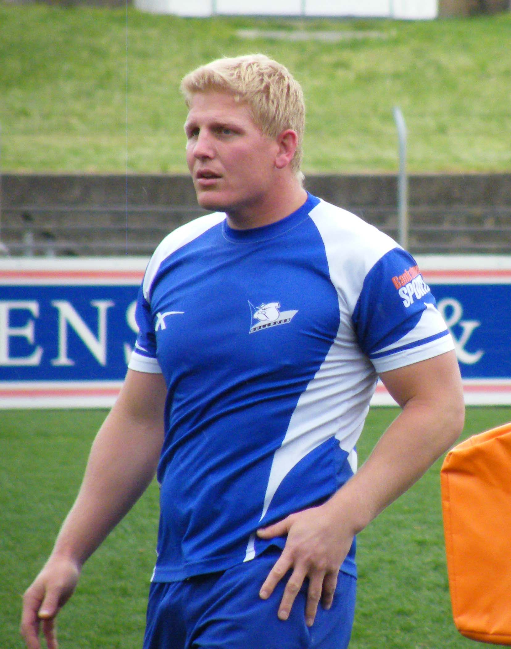 Ben Hannant